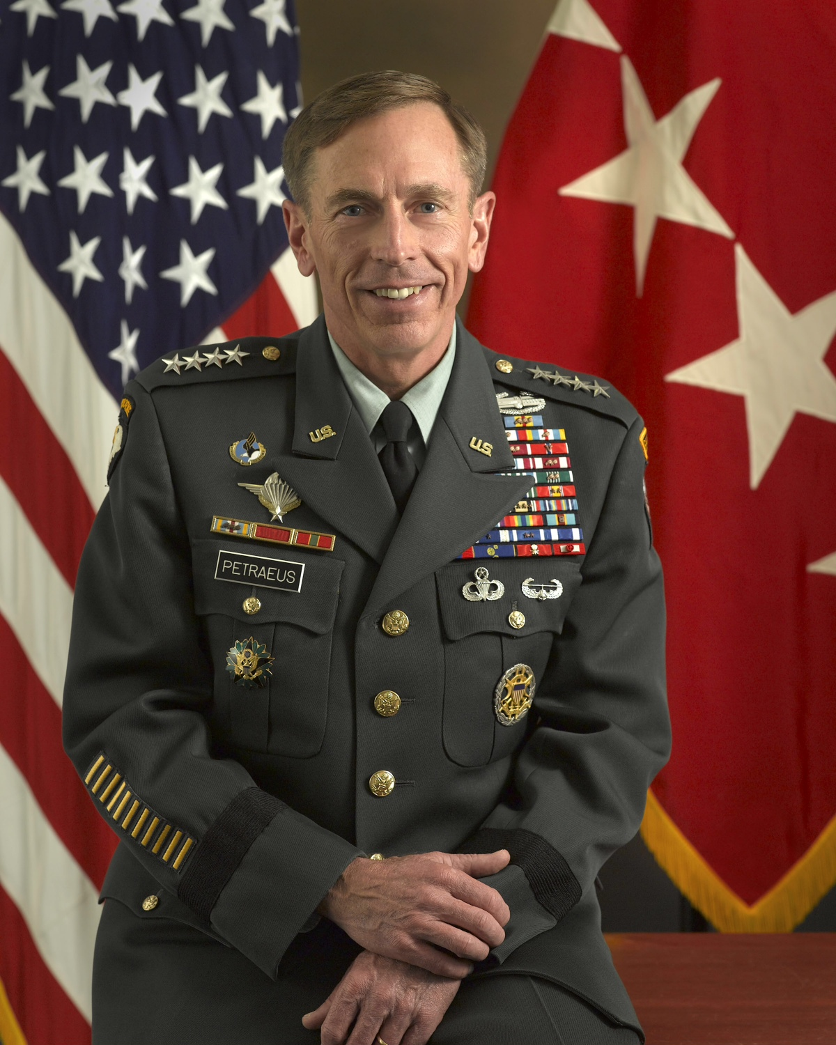 Portrait photo